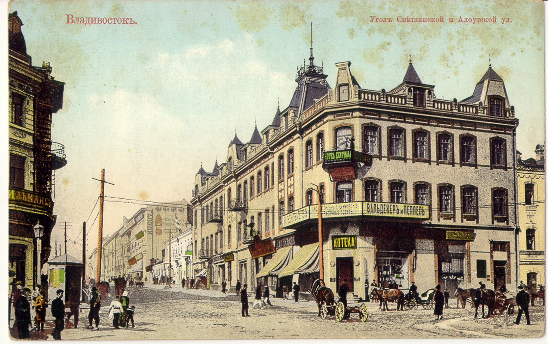 Vladivostok in the 1900s